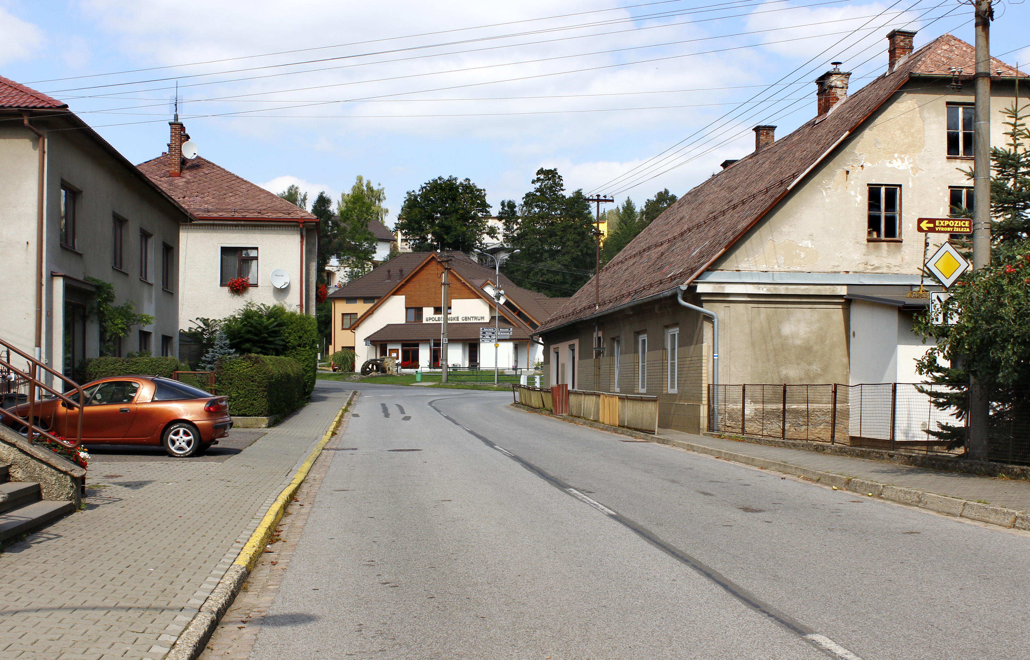 Main street in Skuhrov nad Bělou, Czech Republic